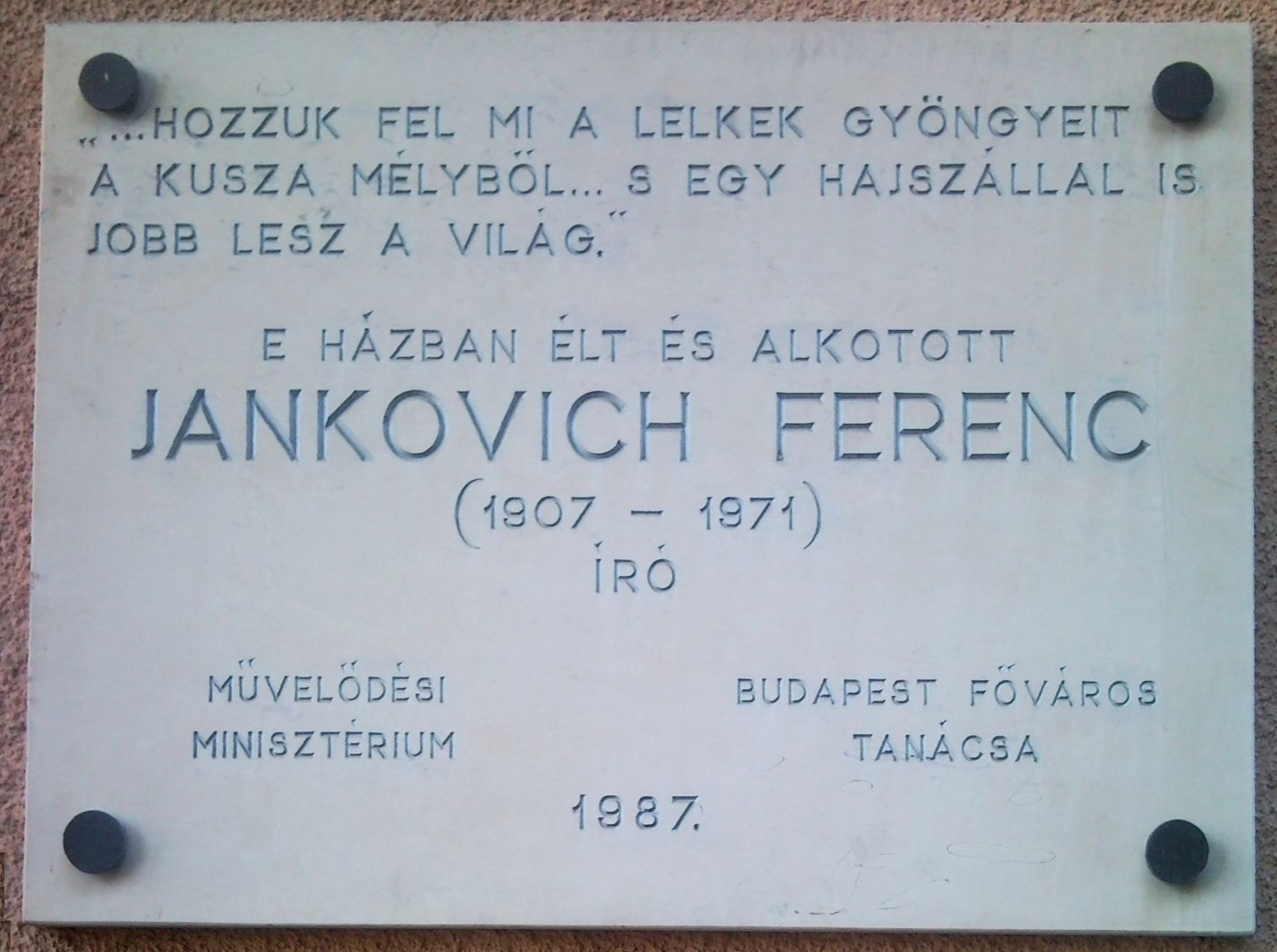 Ferenc Jankovich commemorative plaque in Budapest District I, Mátray Street No 9